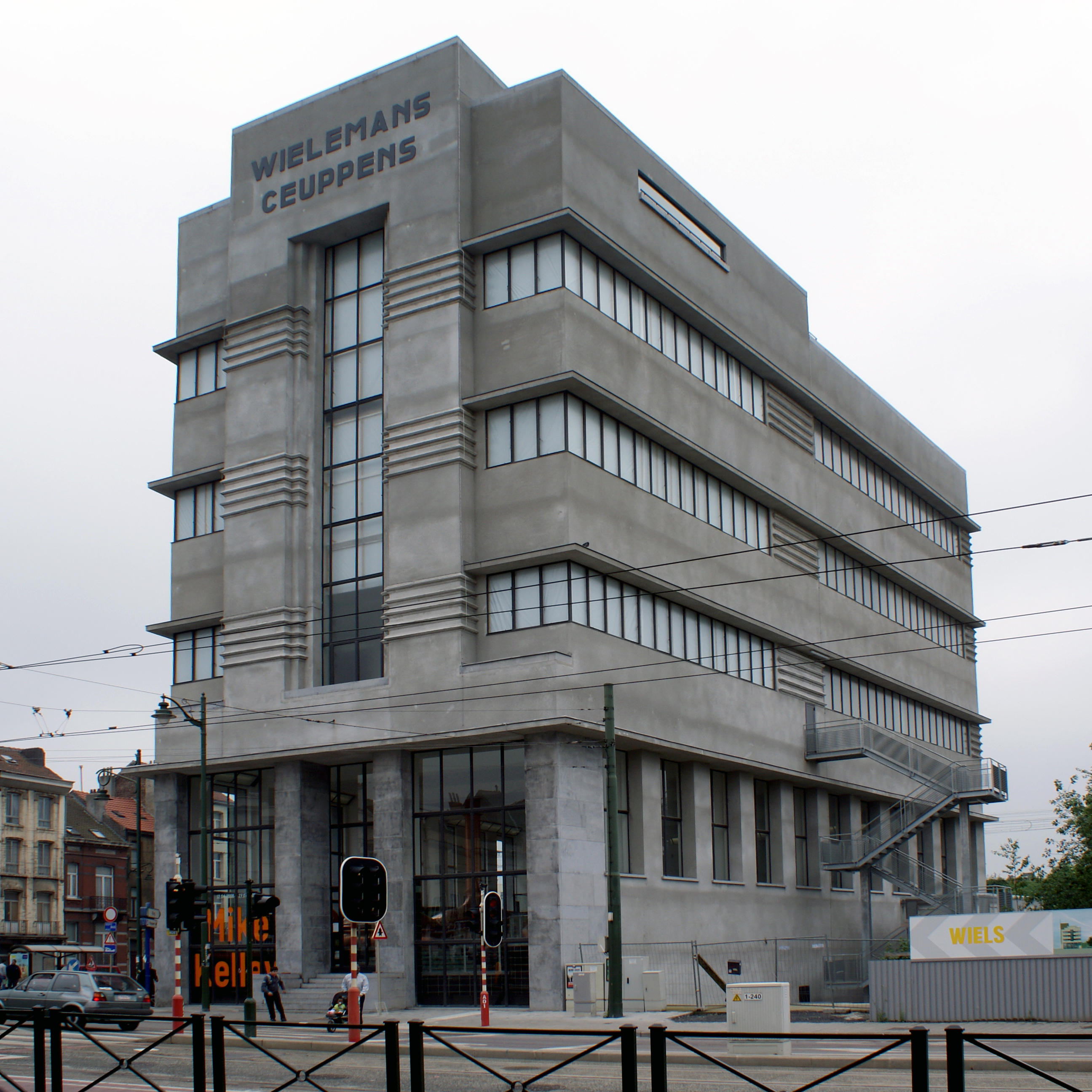 Wiels, Contemporary art center in Brussels, Mike Kelley exhibition, may 2008.